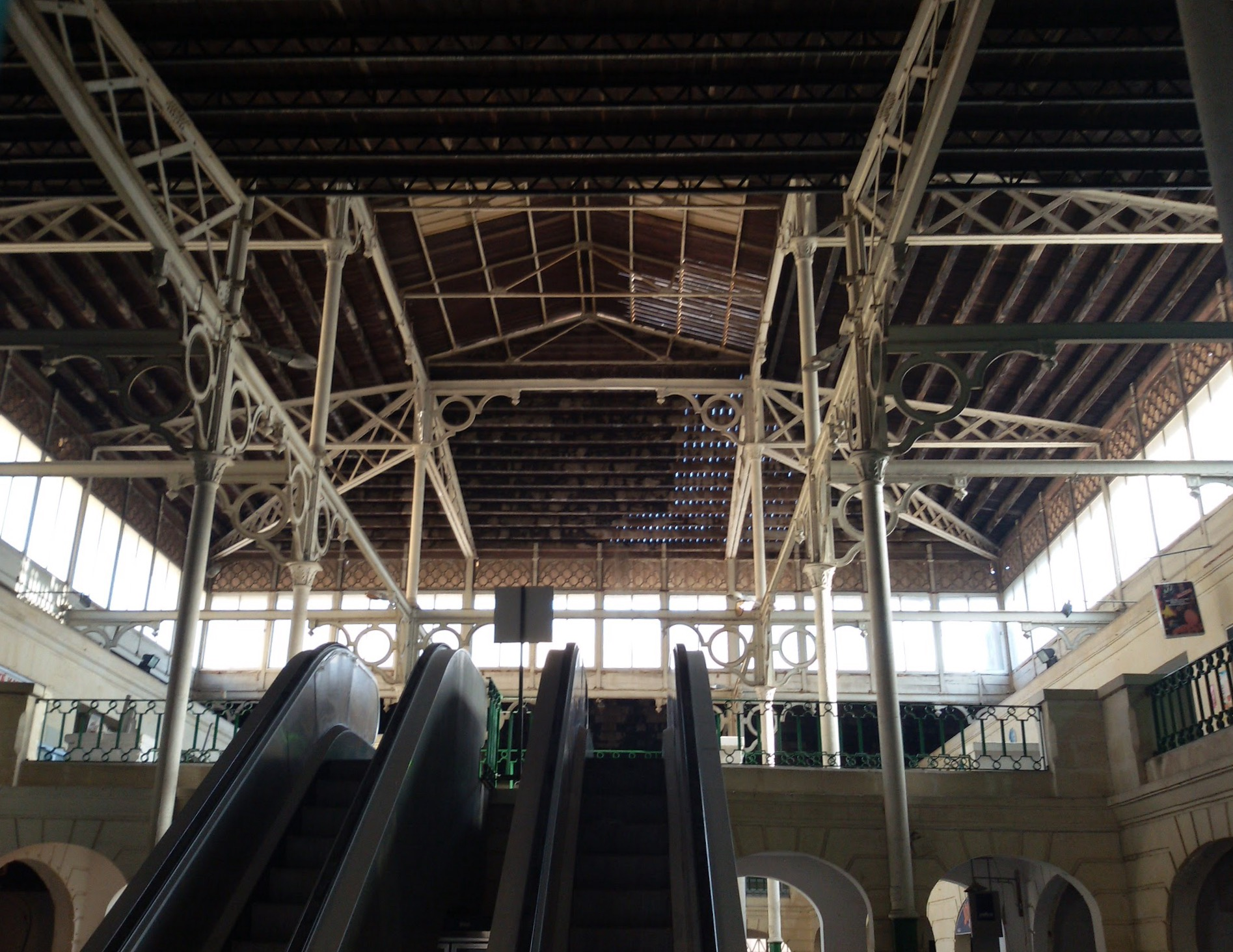 Valletta market iron